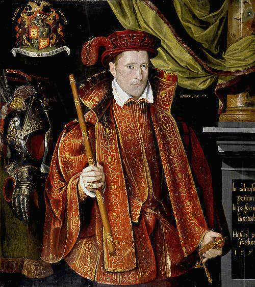 George Seton (c. 1531-1585/6), 5th [or 7th] Lord Seton, aged 27, wearing the suit of clothes he wore to the wedding of Mary Queen of Scots in 1558.